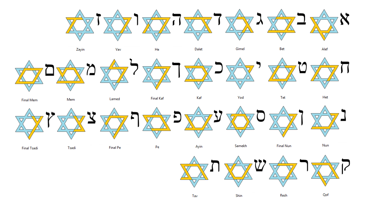 Magen David Hebrew Alphabet